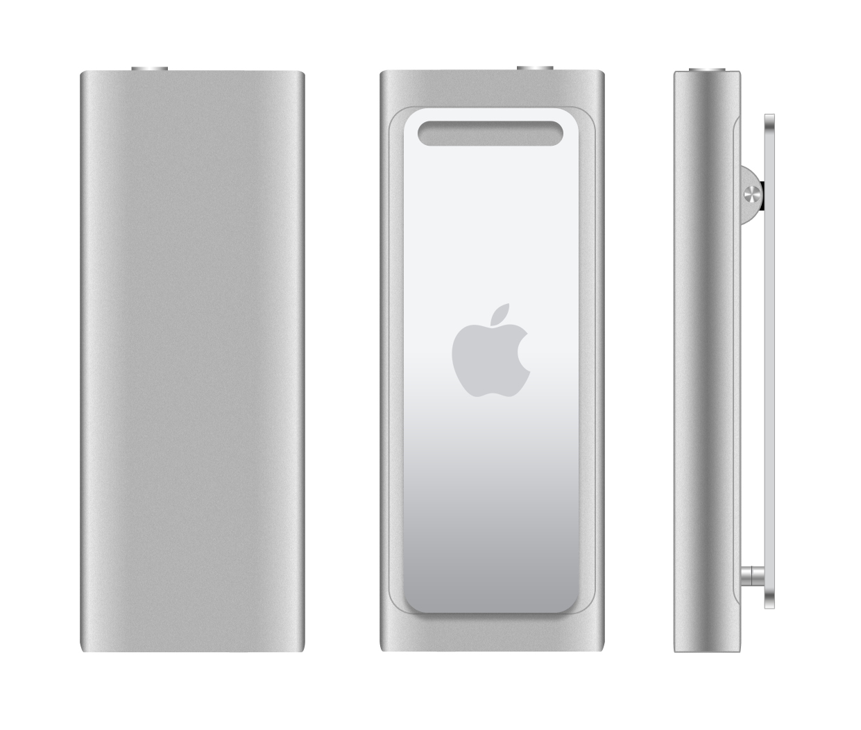 iPod shuffle 3G back, front and side view